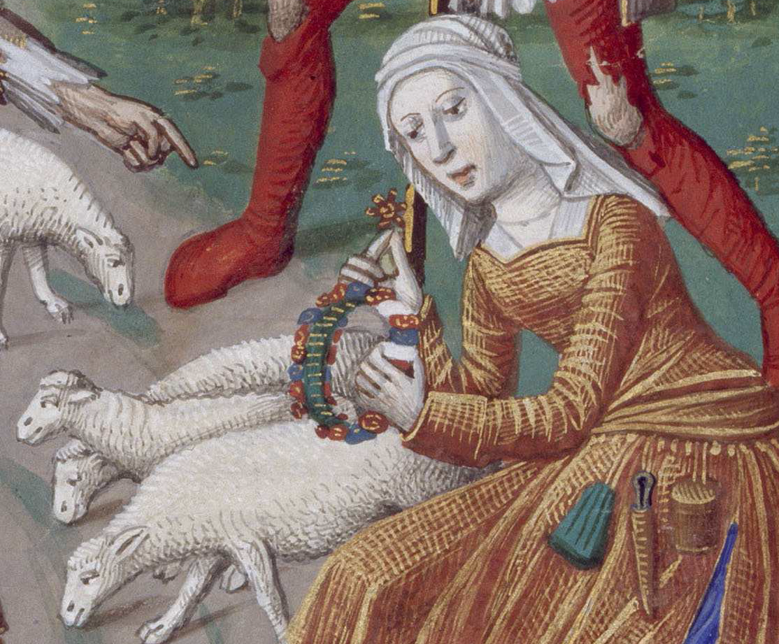 Detail of Shepherdess from an Annunciation to the shepherds.